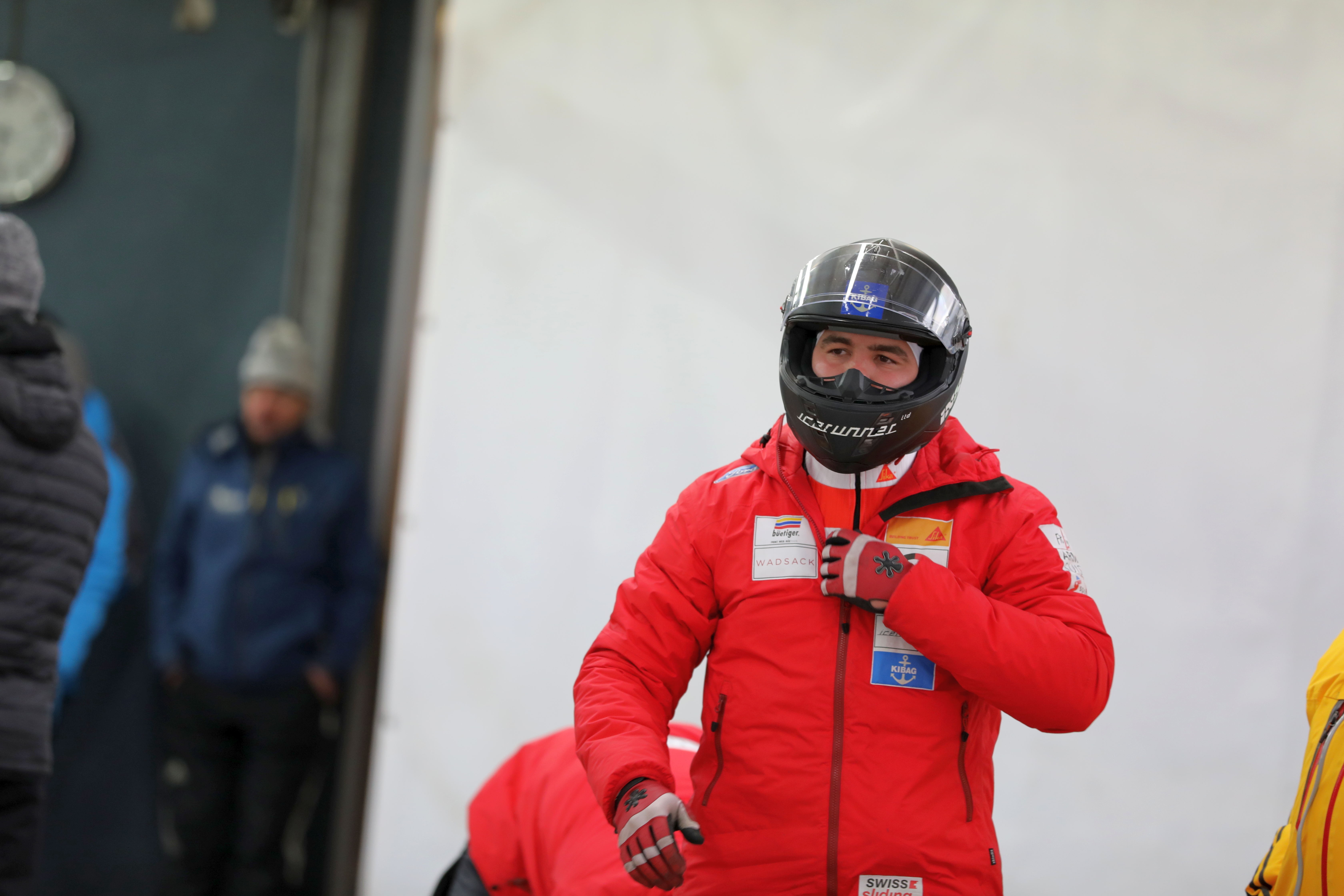 Bobsleigh Europe Cup 2018-19 in Altenberg - 2-man Race 1, first run